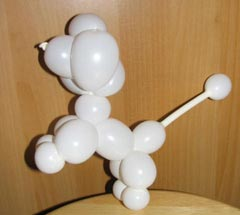 A classic balloon poodle.